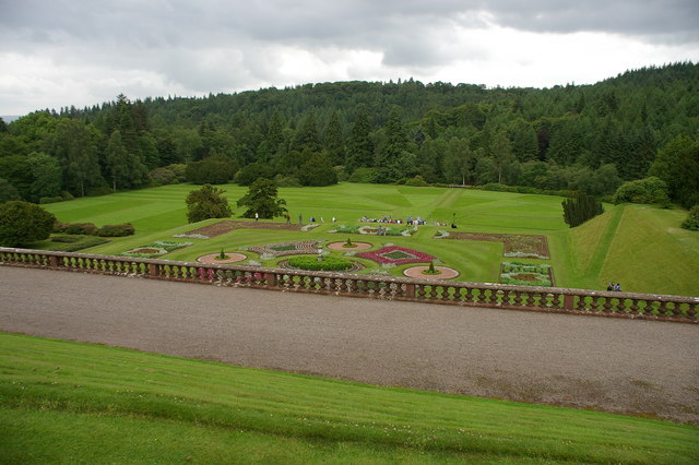 Gardens, Drumlanrig Castle Gardens found on the S side of the castle. The S side of these gardens is used for the flying displays of the castle's hawk collection